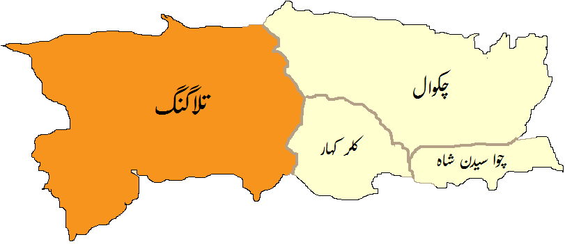 Map of Talagang Tehsil in Chakwal District, Punjab, Pakistan